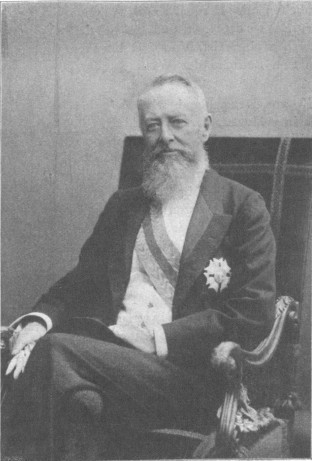 Photograph of Francis Richard Plunkett (1835-1907), British diplomat.